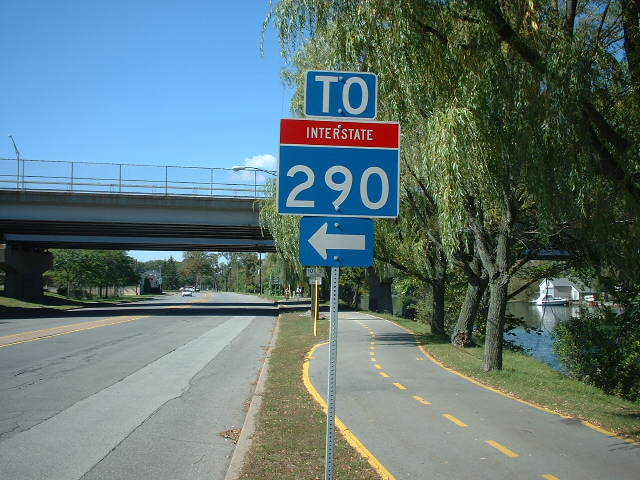 If Picasso was in charge of designing the Interstate highway shields, he'd come up with something similar to this. This is found off NY 425 in Tonawanda.